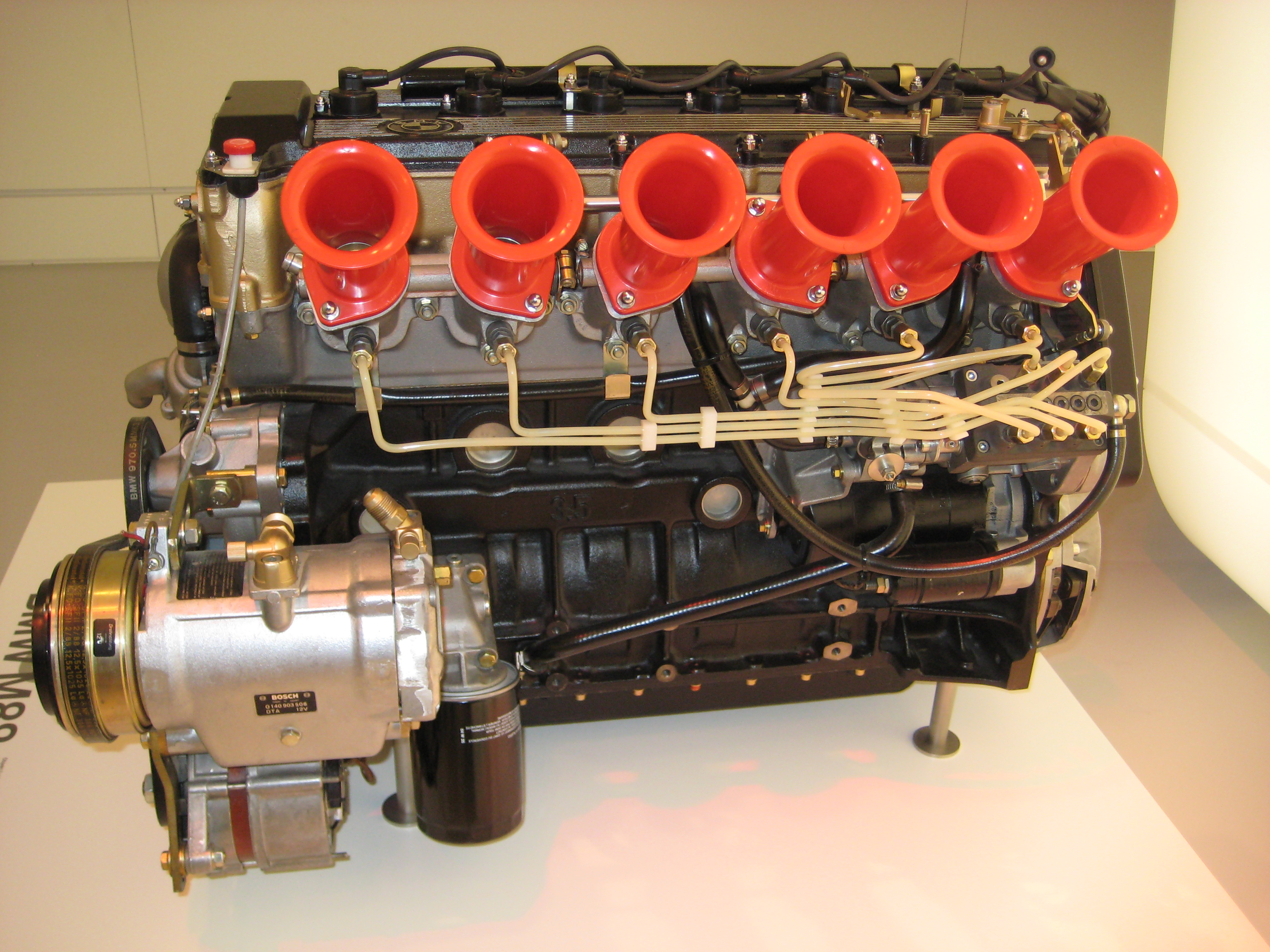 BMW Engine Type M88 from a BMW M1 with Kugelfischer Fuel Injection Type PL 06 and Single-throttle Butterflies